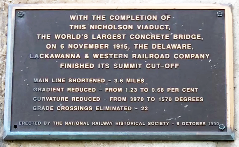 The NRHS landmark plaque is bolted on the structure pier wall.